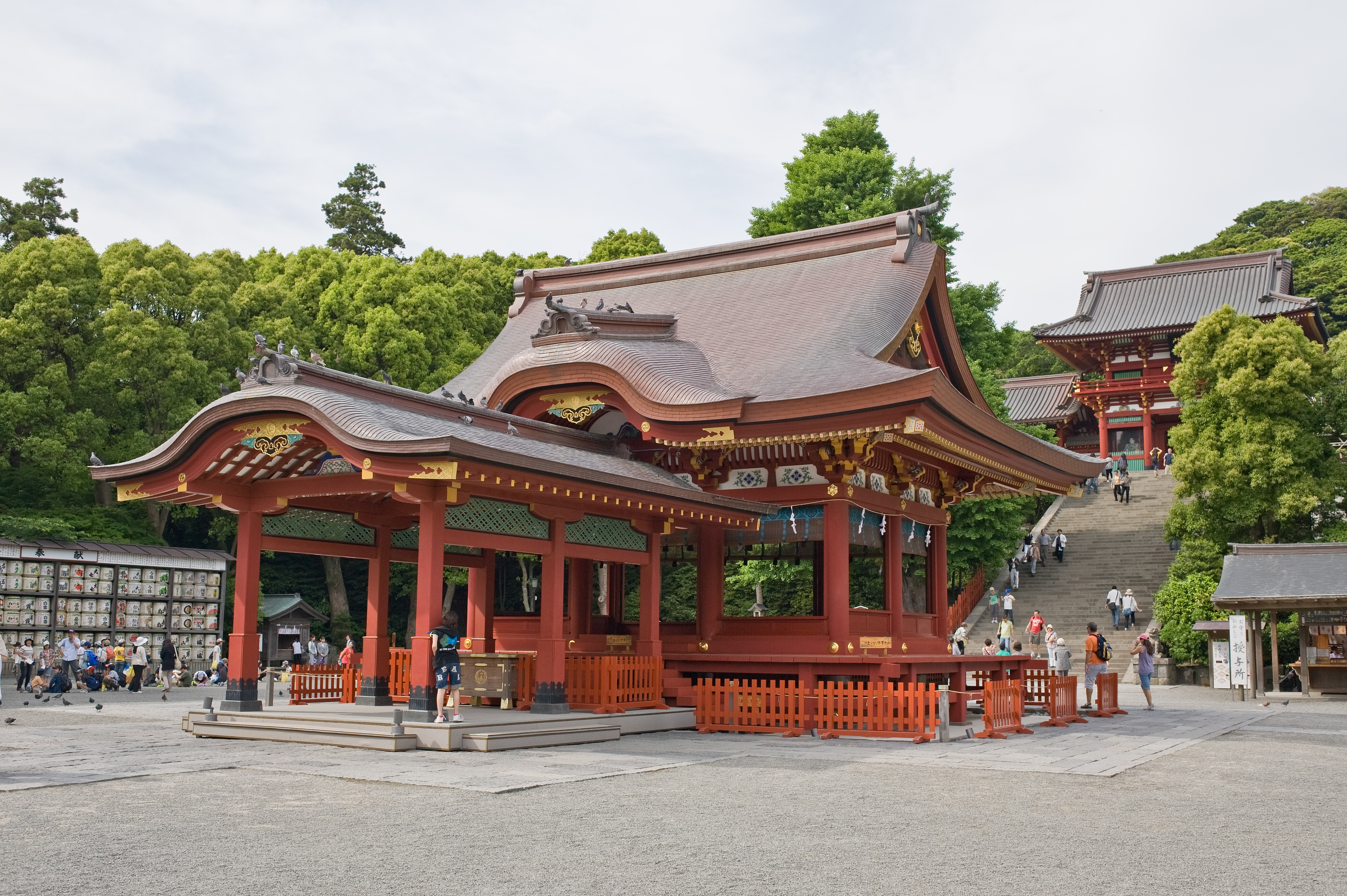 the Kagura-den at Tsurugaoka Hachiman-gū, Kamakura